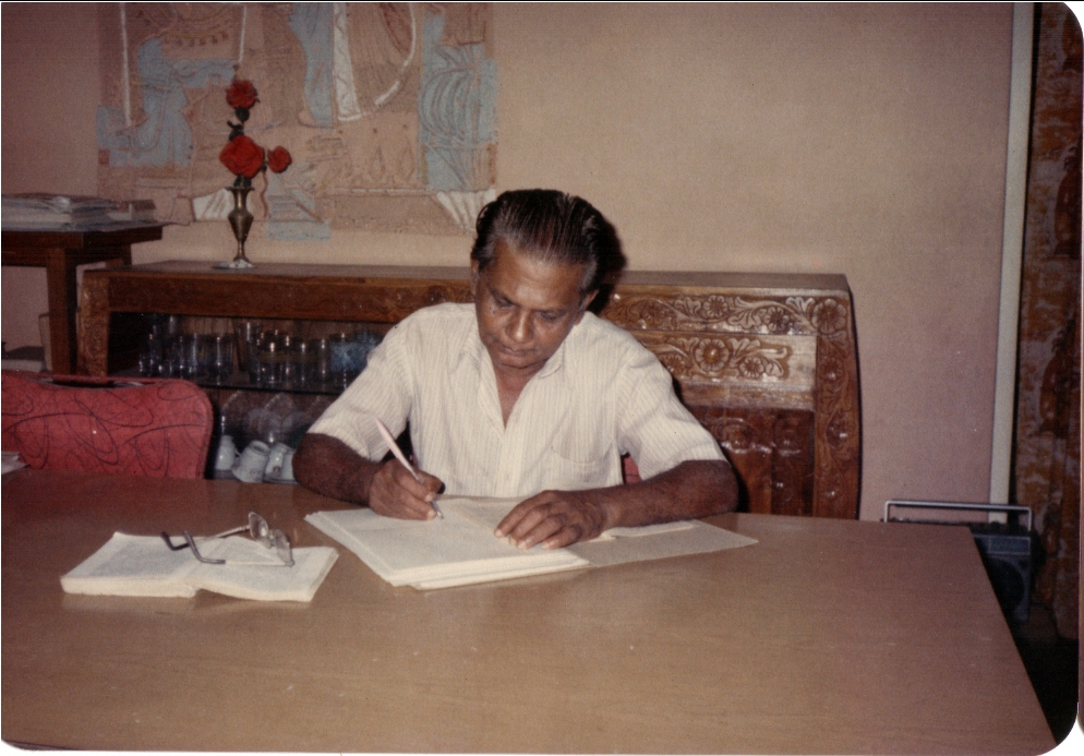 Saman_Tilakasiri_Sinhala_Author_Poet_Sri_Lanka